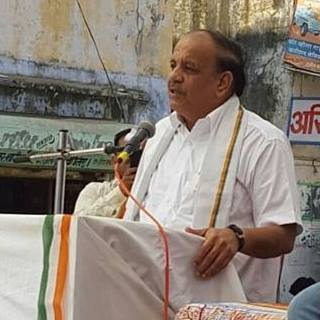 Subhash Kumar Sojatia in 2016